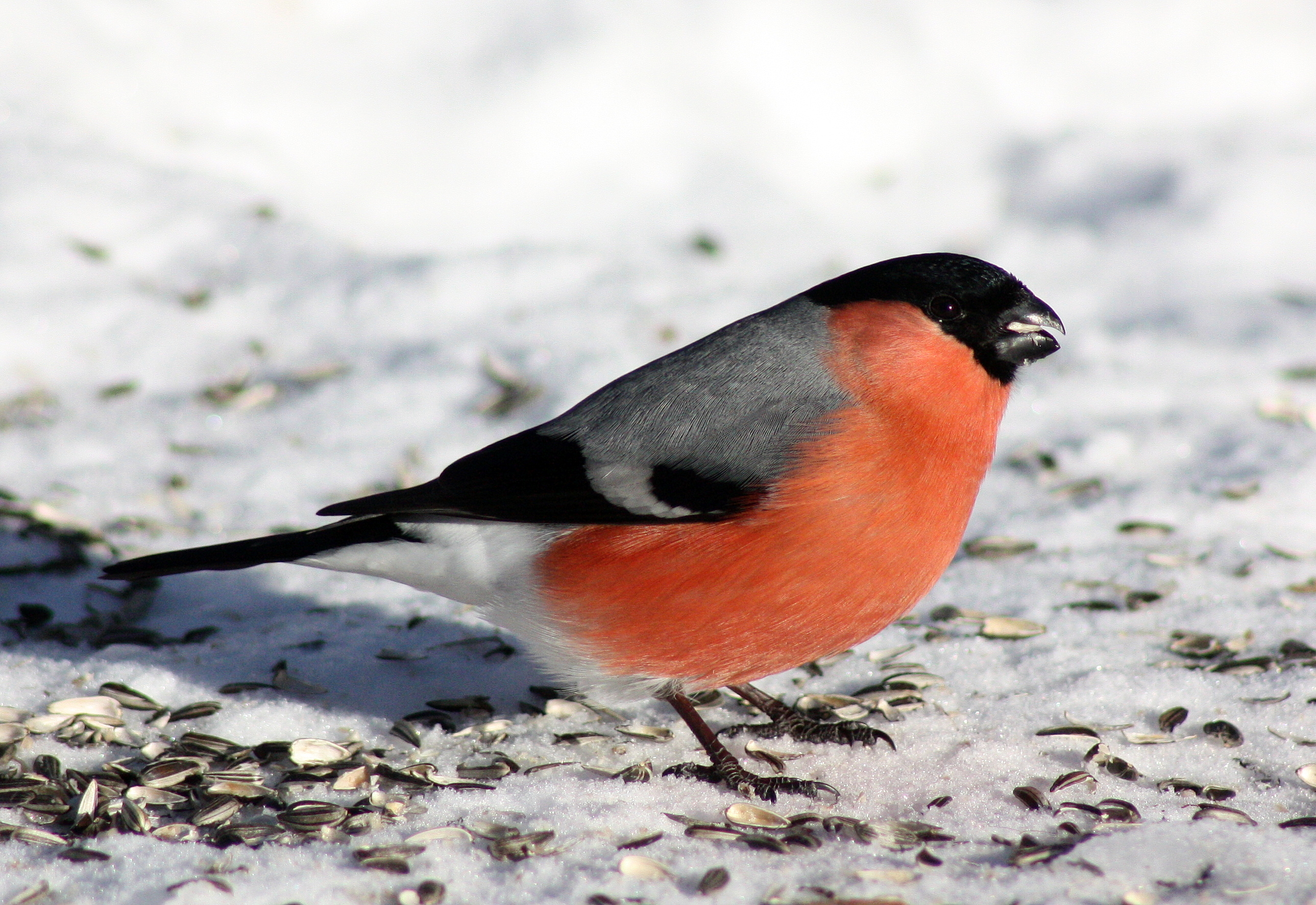 Eurasian bullfinch (Pyrrhula pyrrhula) male in Kittilä, Finland.